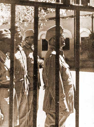 Netaji Subhas Chandra Bose inspects the Cellular Jail on Andaman Island.